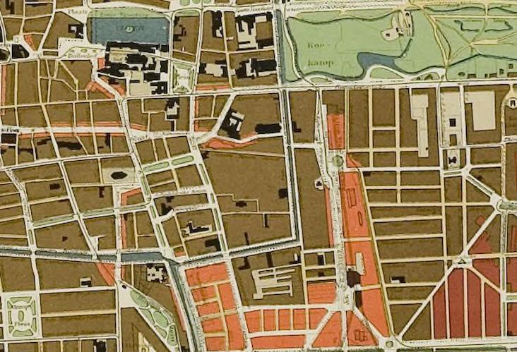 Map of The Hague of 1908 on which shown the urban development plan designed by architect Hendrik Berlage.